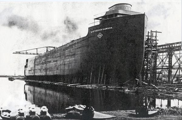 Construction of the steamer Sir Trevor Dawson in Superior, Wisconsin